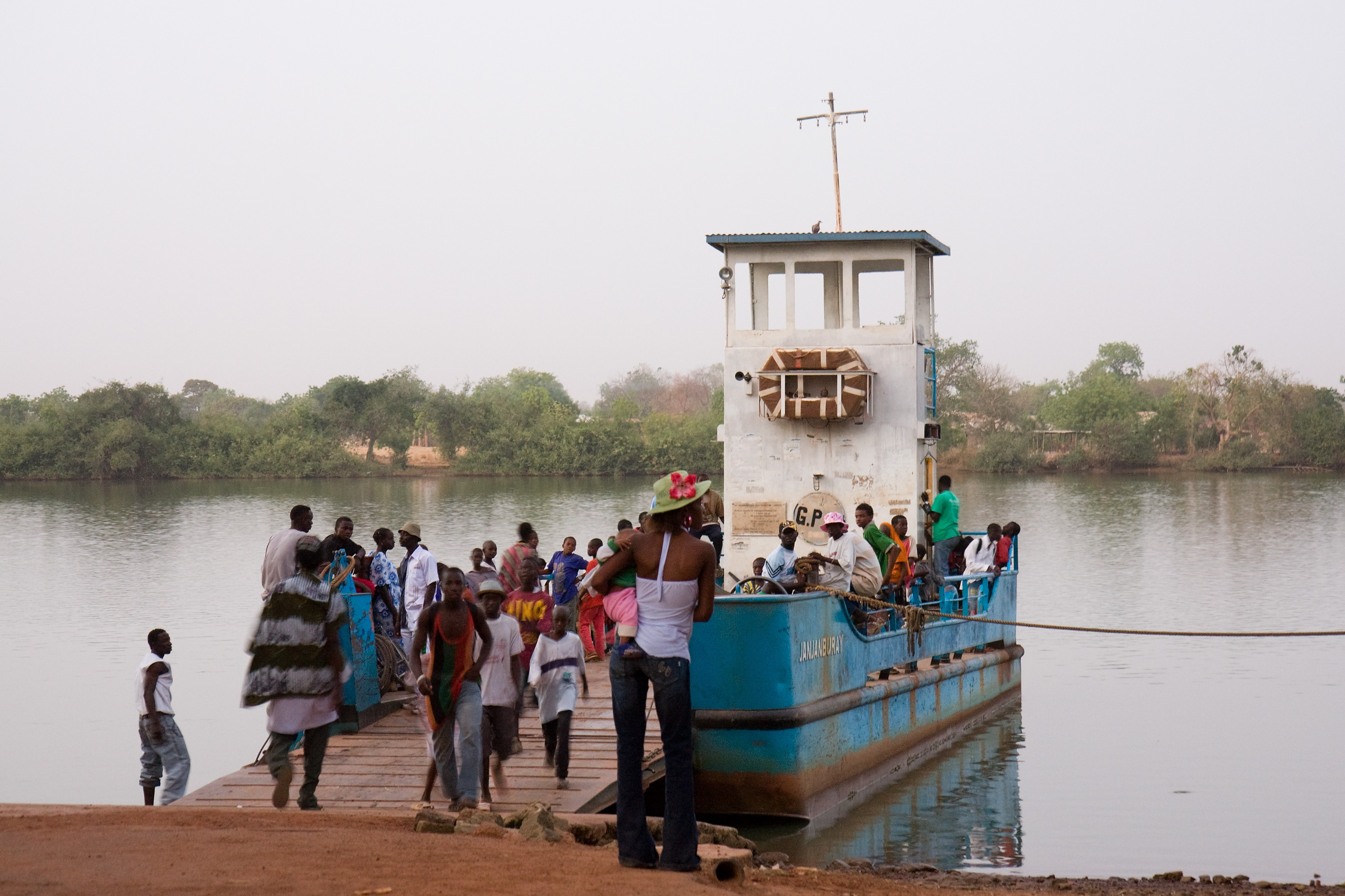 The ferry connecting St. James island with the north riverside in Georgetown/The Gambia